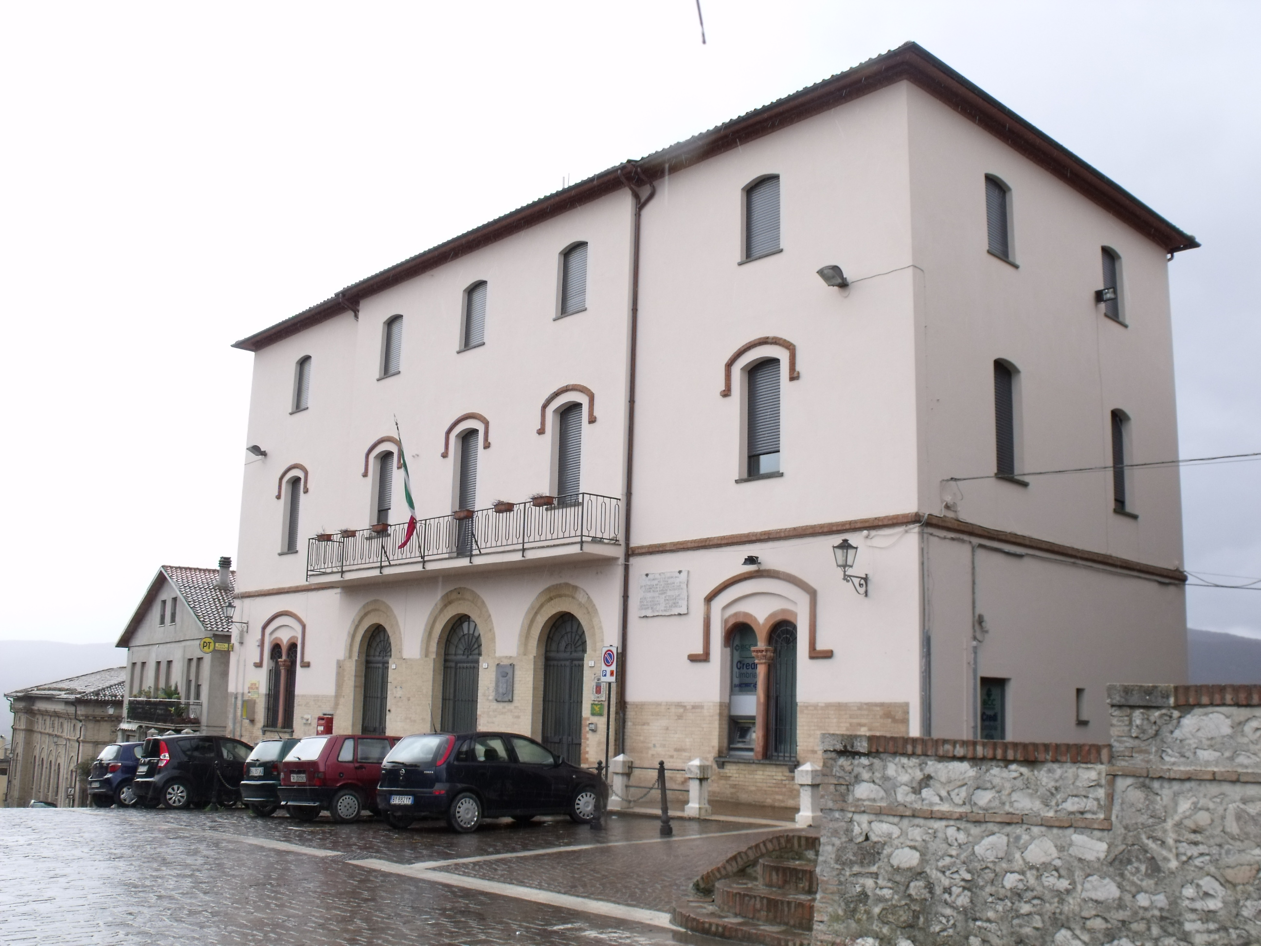 Townhall of Allerona, Umbria, Italy